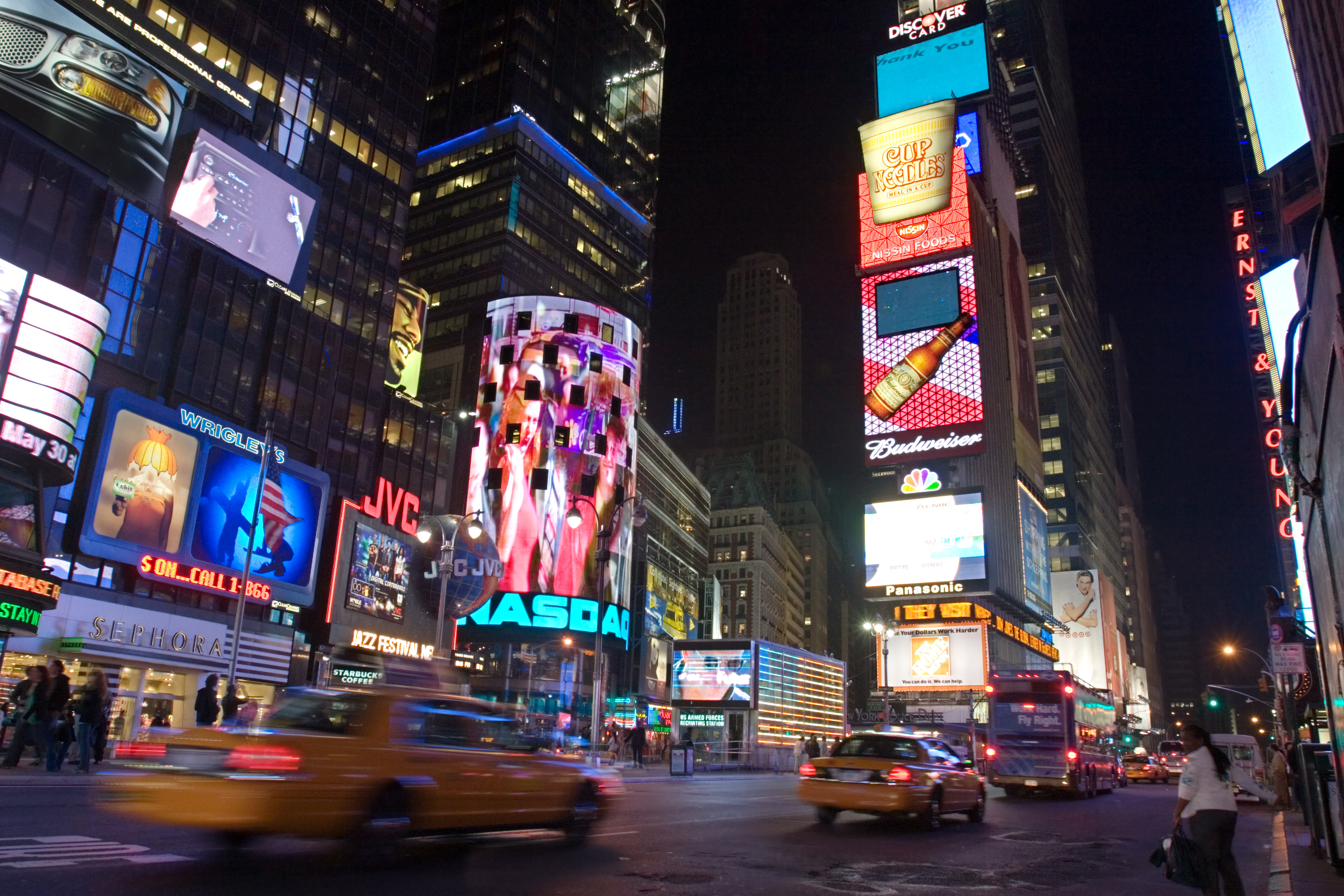 Times Square. New York City 2005